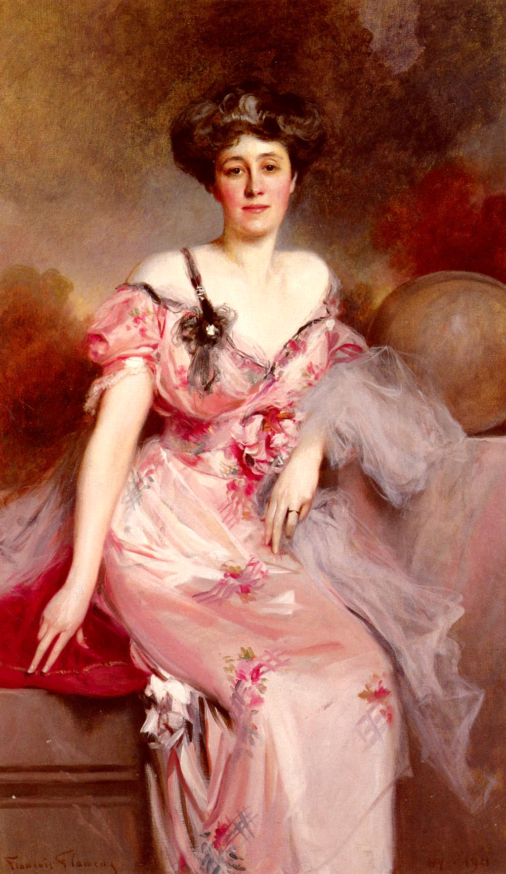 Portrait of Mrs. D...